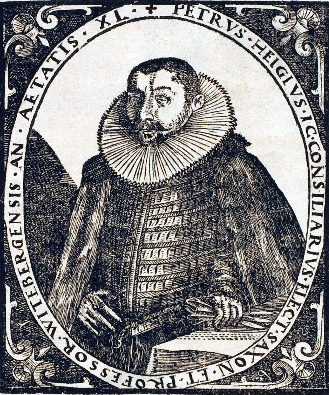 Peter Heige (1559-1599) German legal scholar